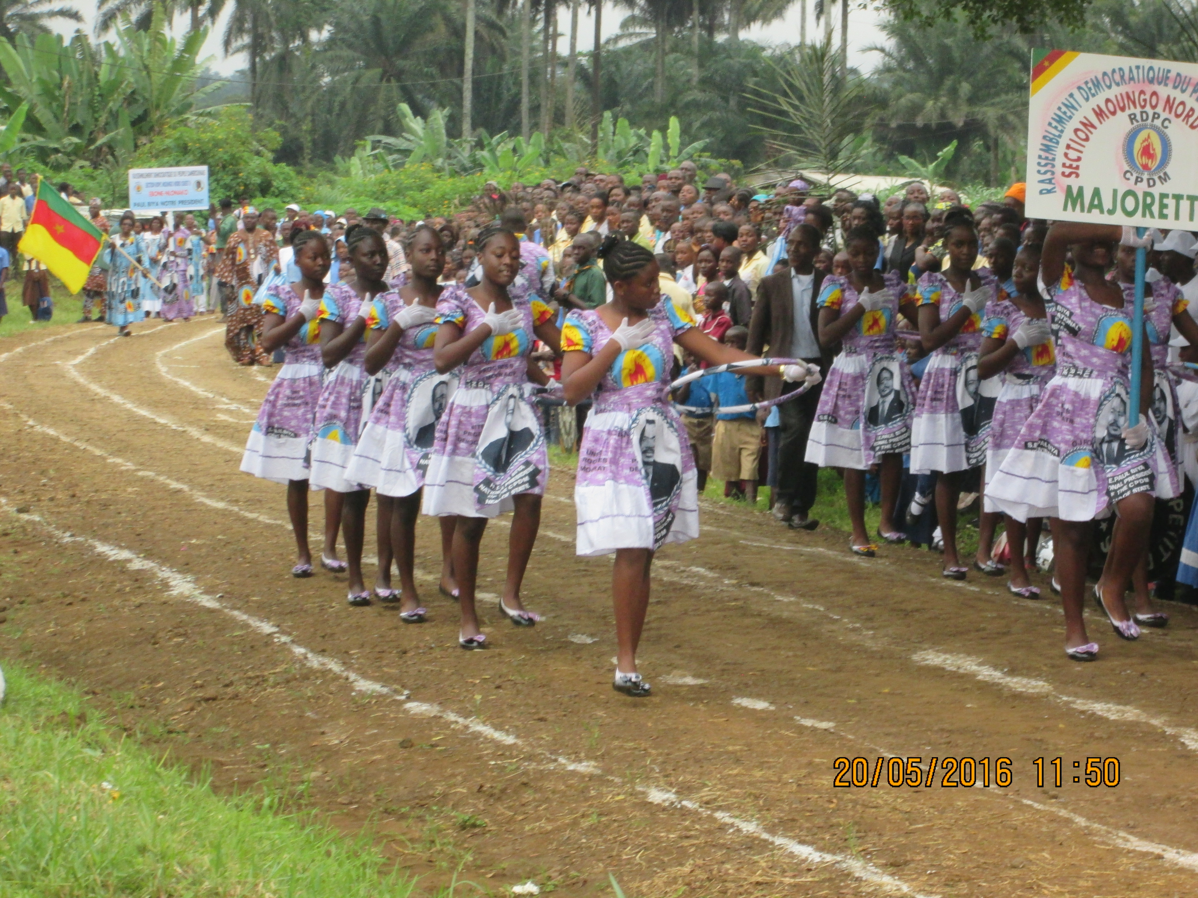 This is an image with the theme "Play" from: Cameroon